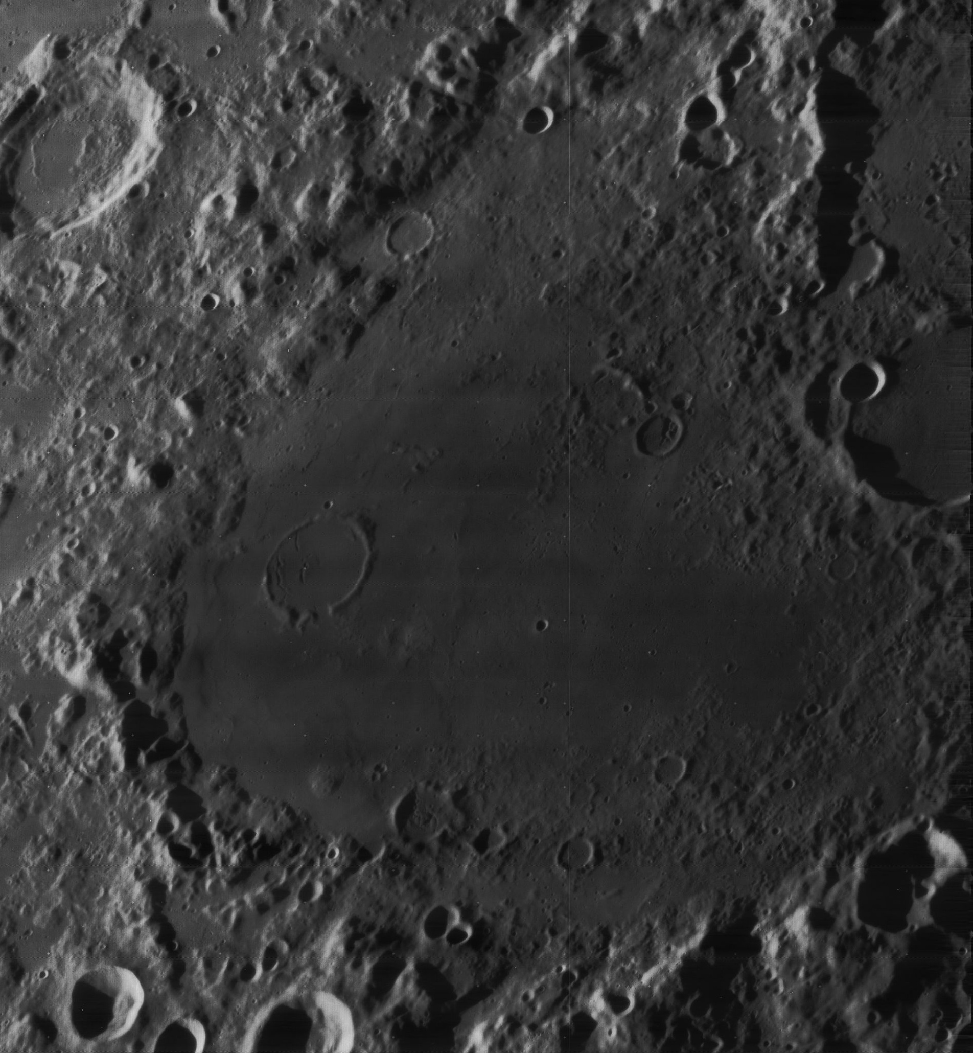 Oblique view of most of Mare Humboldtianum, on the moon.